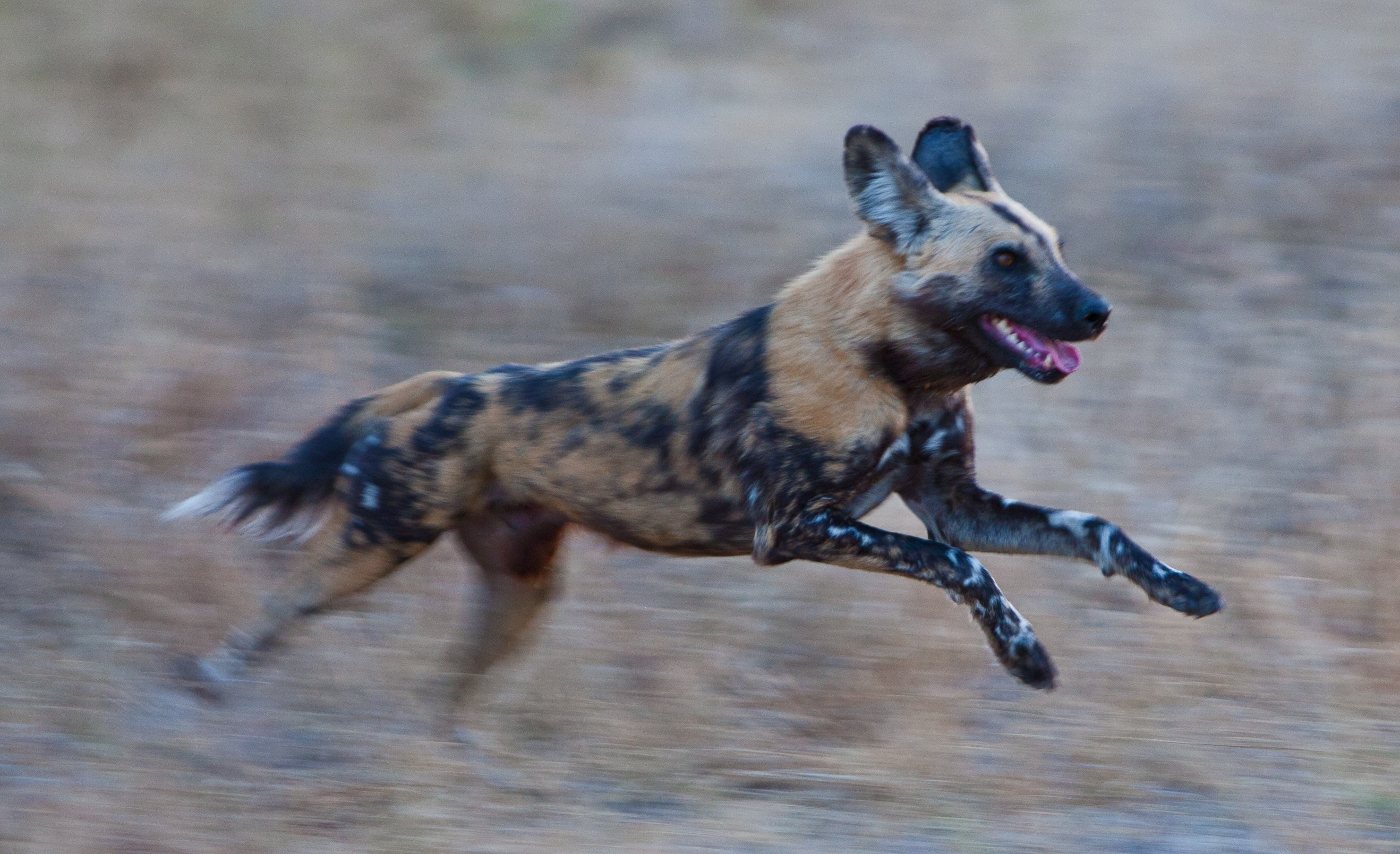 African wild dog chasing an elk in the Okavango Delta.